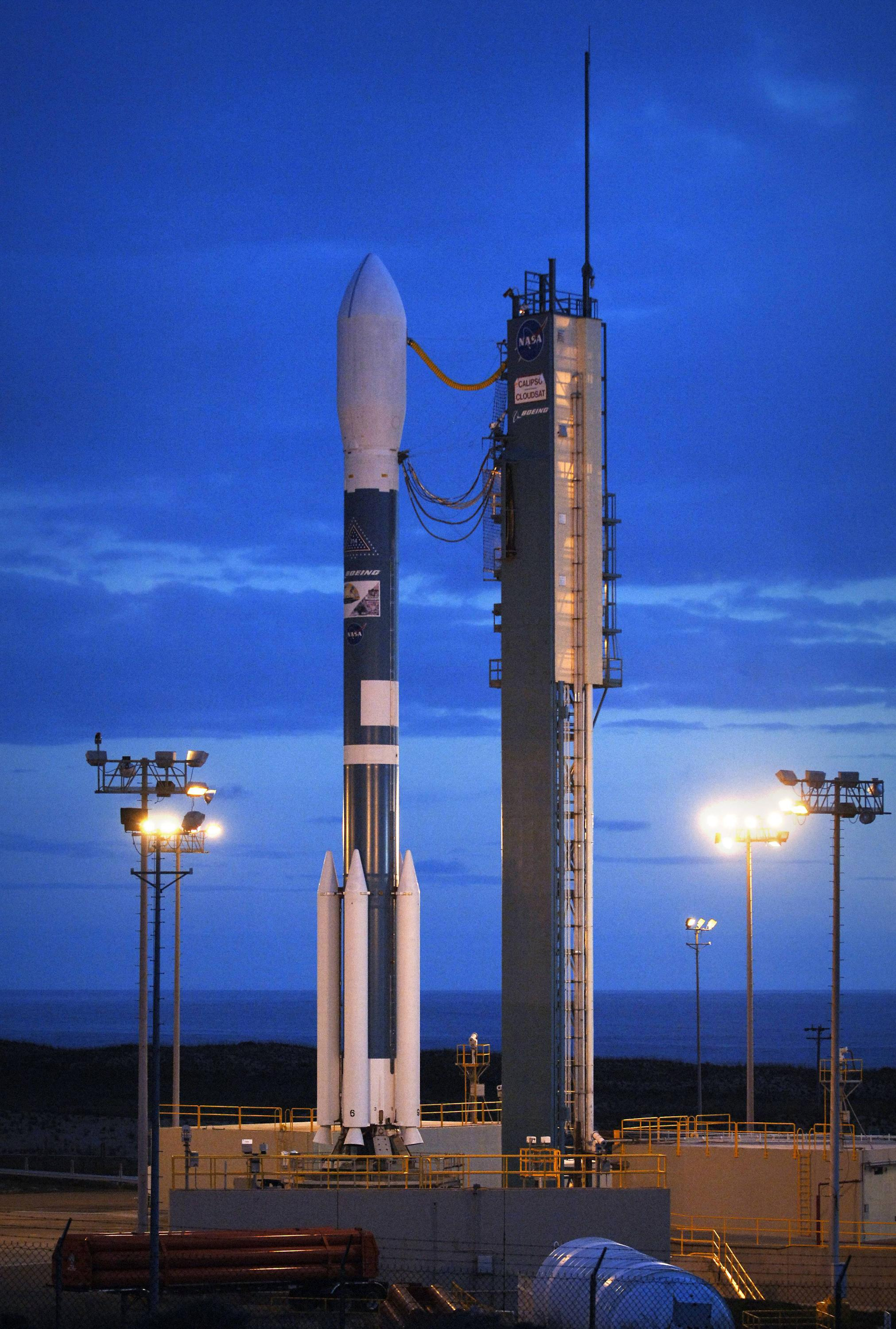 On Vandenberg Air Force Base Space Launch Complex 2W, the Delta II rocket stands ready for fueling in preparation for launch. The CALIPSO and CloudSat satellites are set to launch at 6:02 a.m. EDT on April 23 from Vandenberg Air Force Base (VAFB) on missions to study clouds and aerosols, tiny particles in the air. CALIPSO and CloudSat are set to fly into orbit aboard a Boeing Delta II rocket. The Delta II is designed to boost medium-sized satellites and robotic explorers into space. NASA selected a model 7420-10C for this mission, which is a two-stage rocket equipped with four strap-on motors and a protective 10-foot payload fairing.